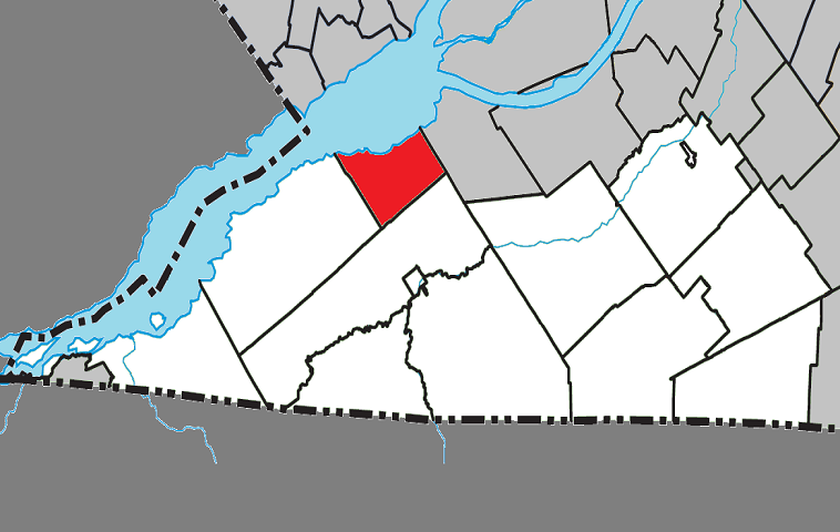 Location of Sainte-Anicet, Quebec within Le Haut-Saint-Laurent Regional County Municipality.